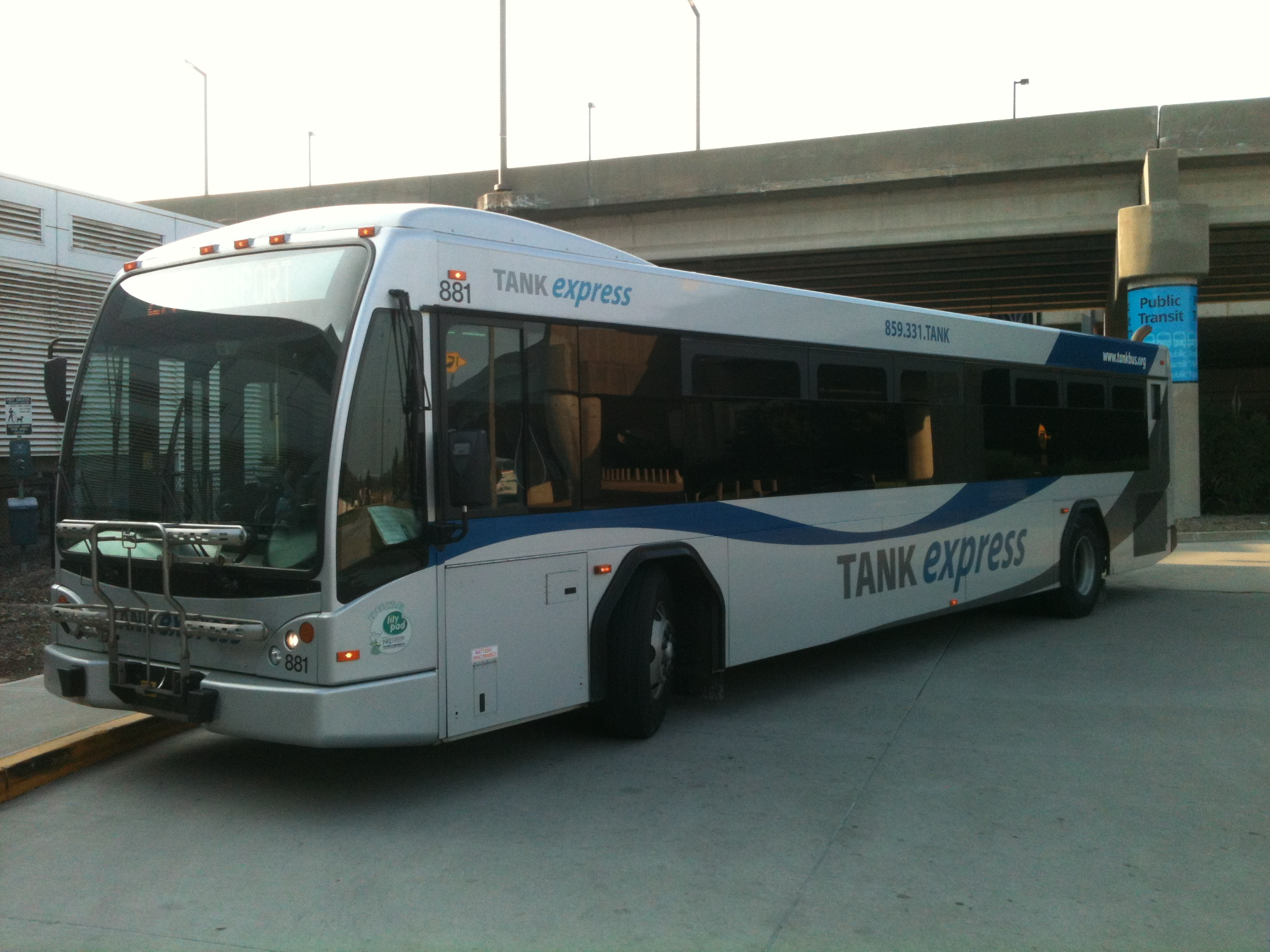 Transit Authority Of Northern Kentucky (TANK) Gillig BRT at the Cincinnati/Northern Kentucky International Airport